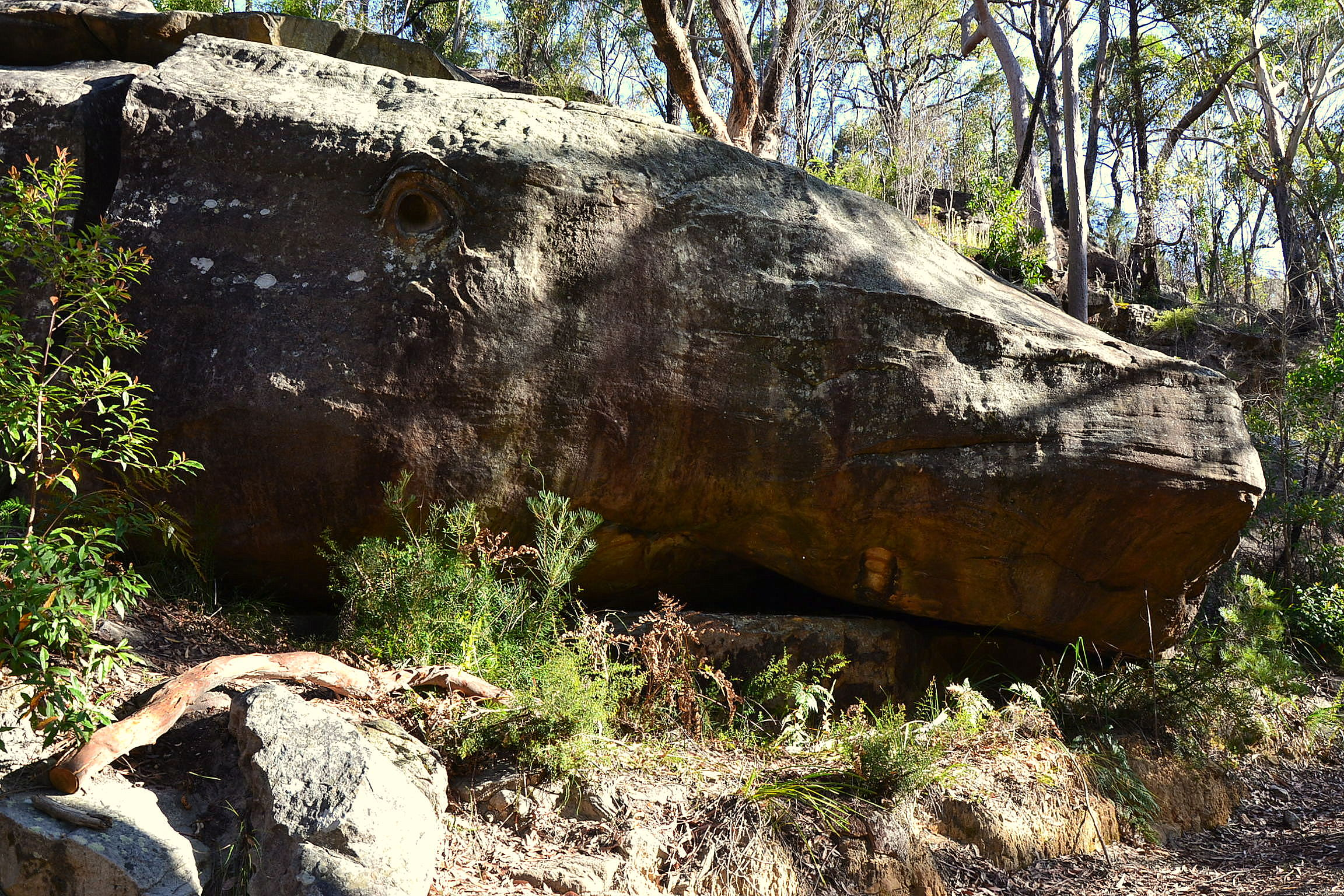 Whale Rock, Devlins Creek, Lane Cove NP, Sydney